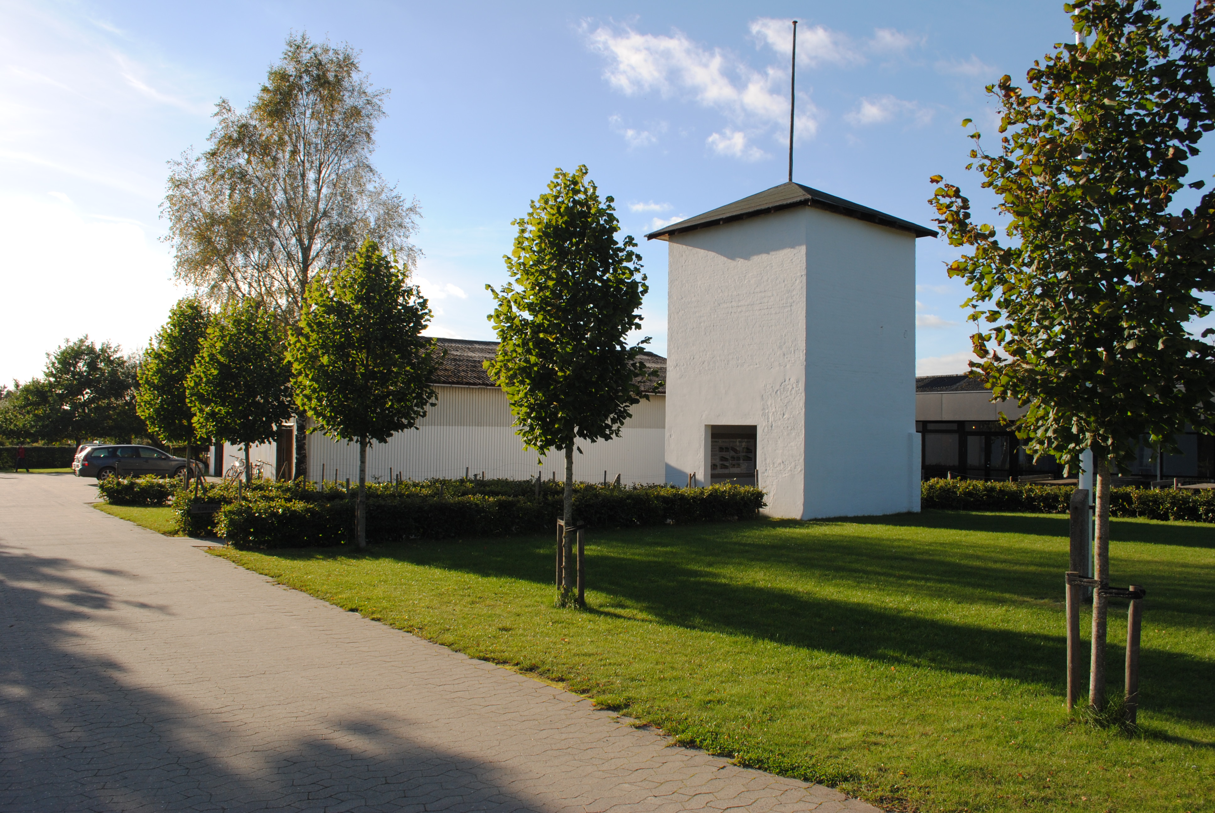 Boarding School in Jutland.